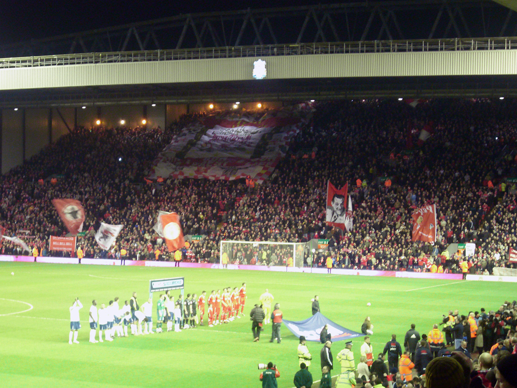 Liverpool - Anfield, Teams